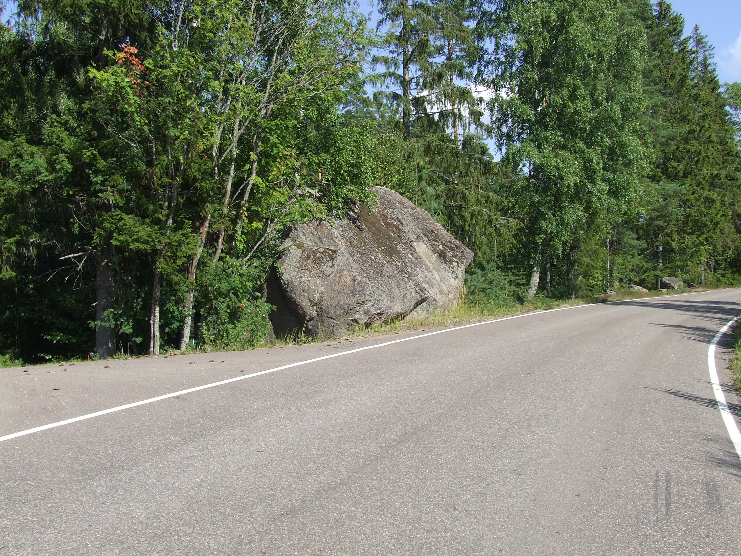 The so called "Pistol stone" by the old road from Hamina to Virojoki, Finland. According to a story robbers were hiding behind the stone waiting for bypassing travellers.